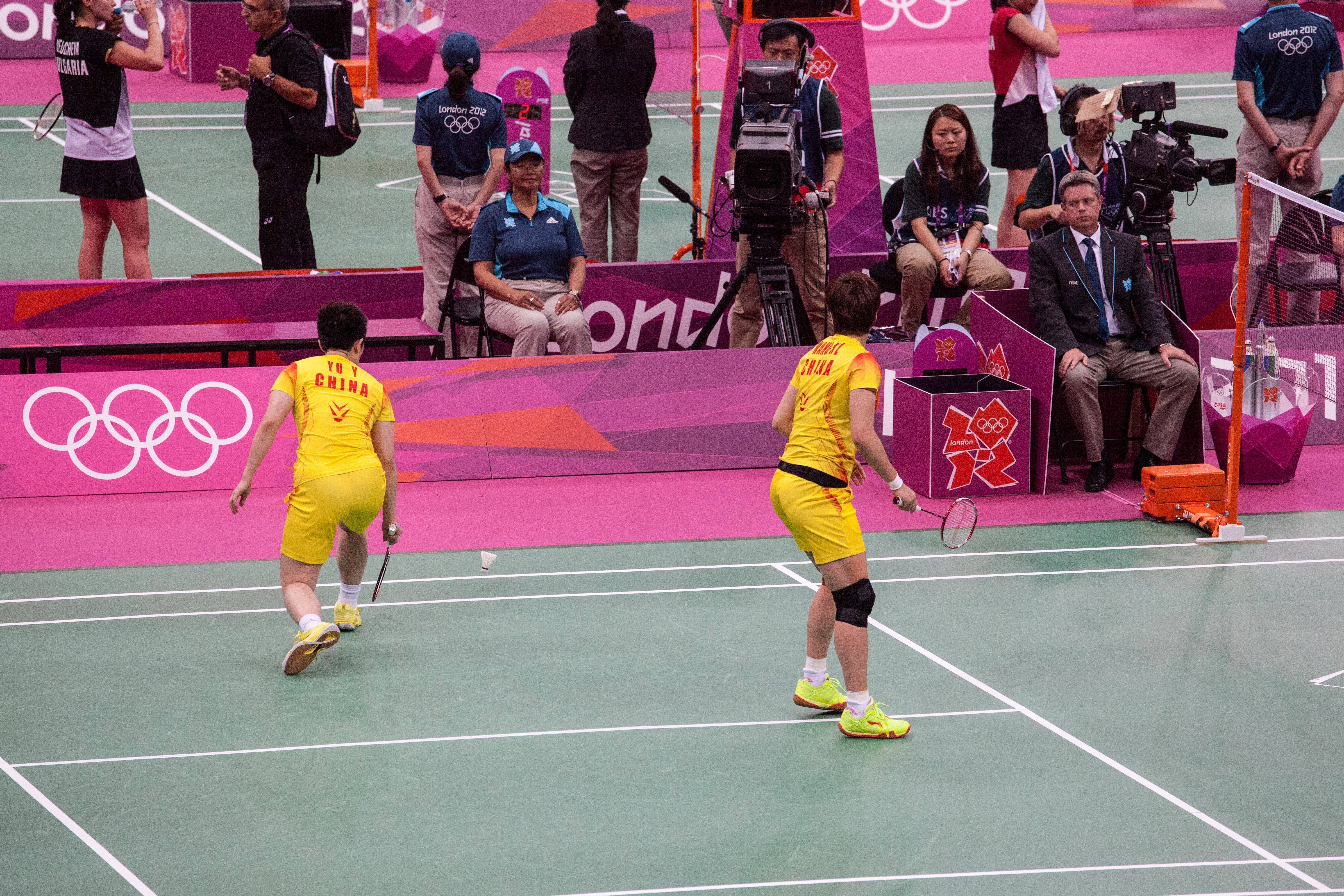 2012 Olympics Xiaoli